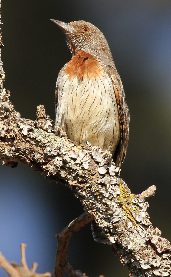 Red-throated Wryneck, Jynx ruficollis at Rietvlei Nature Reserve, Gauteng, South Africa